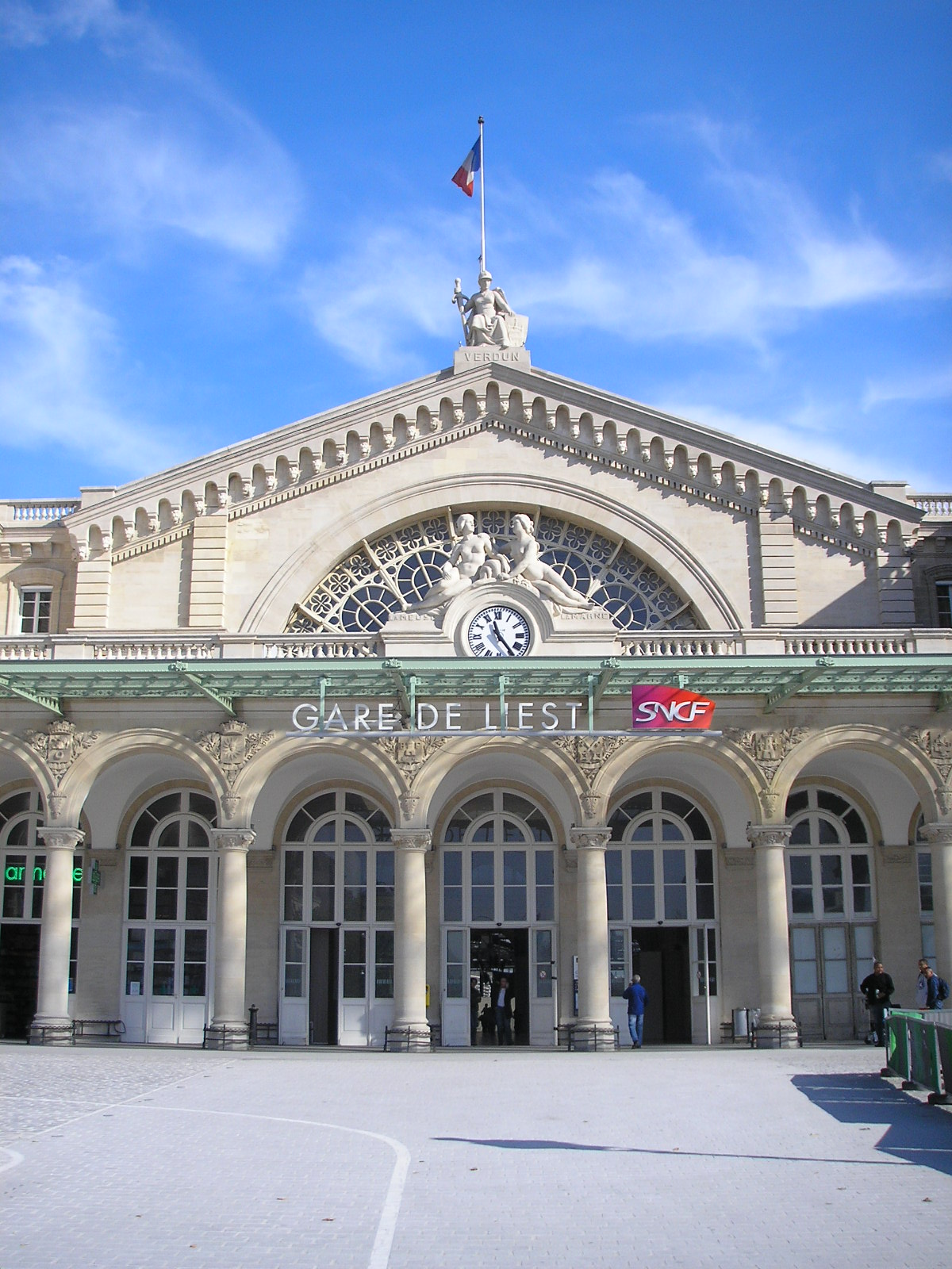 The Gare de l'Est in Paris